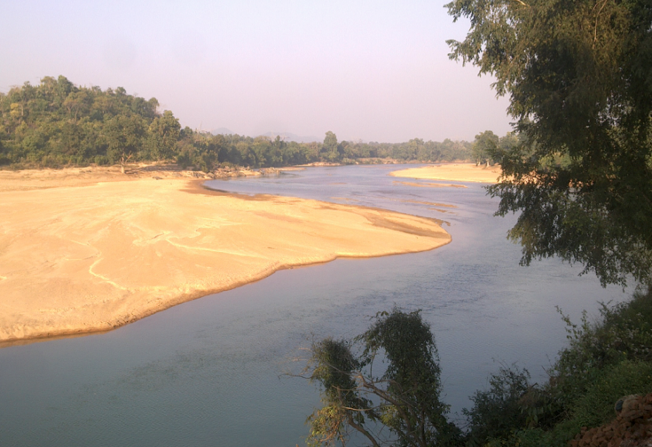 Image captured by me, using my personal camera. Msec109 (talk) 06:05, 27 January 2013 (UTC)